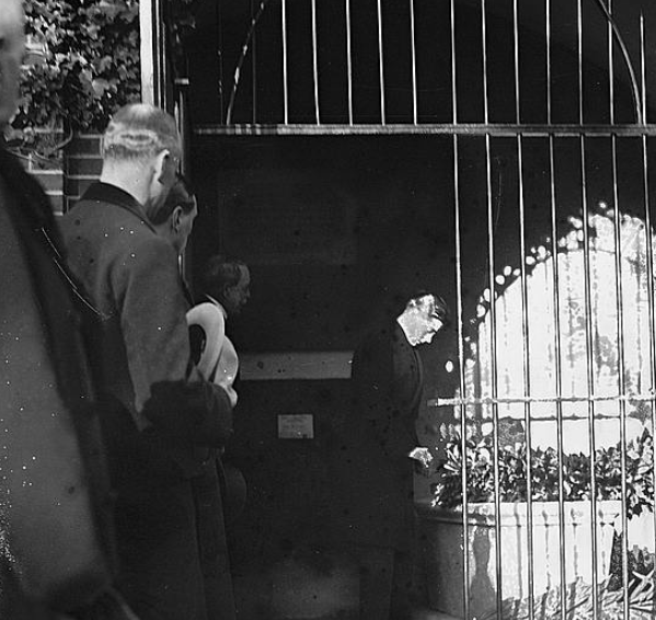 Edward, Prince of Wales (1894-1972) visits the tomb of George Washington in Mount Vernon, Virginia